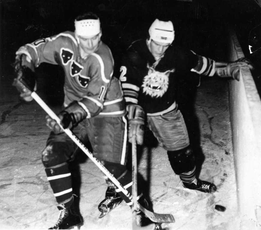 Porin Karhut player Erkki Harju ja Tampereen Ilves player Jarmo Wasama (somewhere 1963-1965 when Harju played for Karhut)